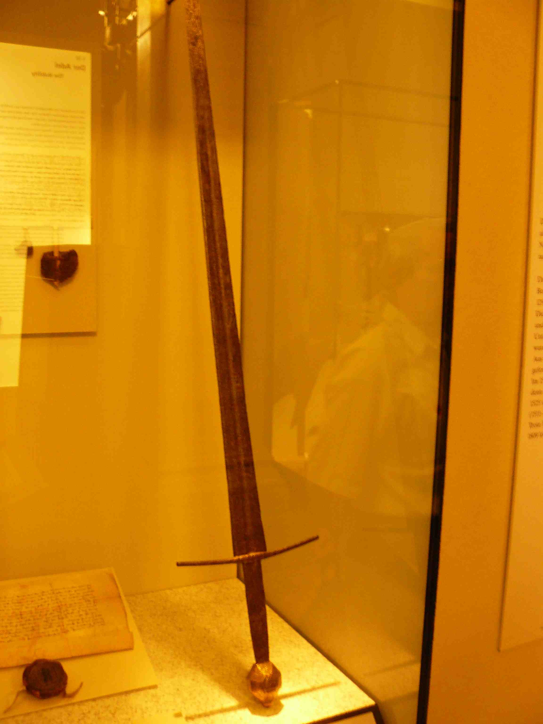 Sword of the Grand Master Konrad von Thüringen (1239-1240); Deutsches Historisches Museum Berlin